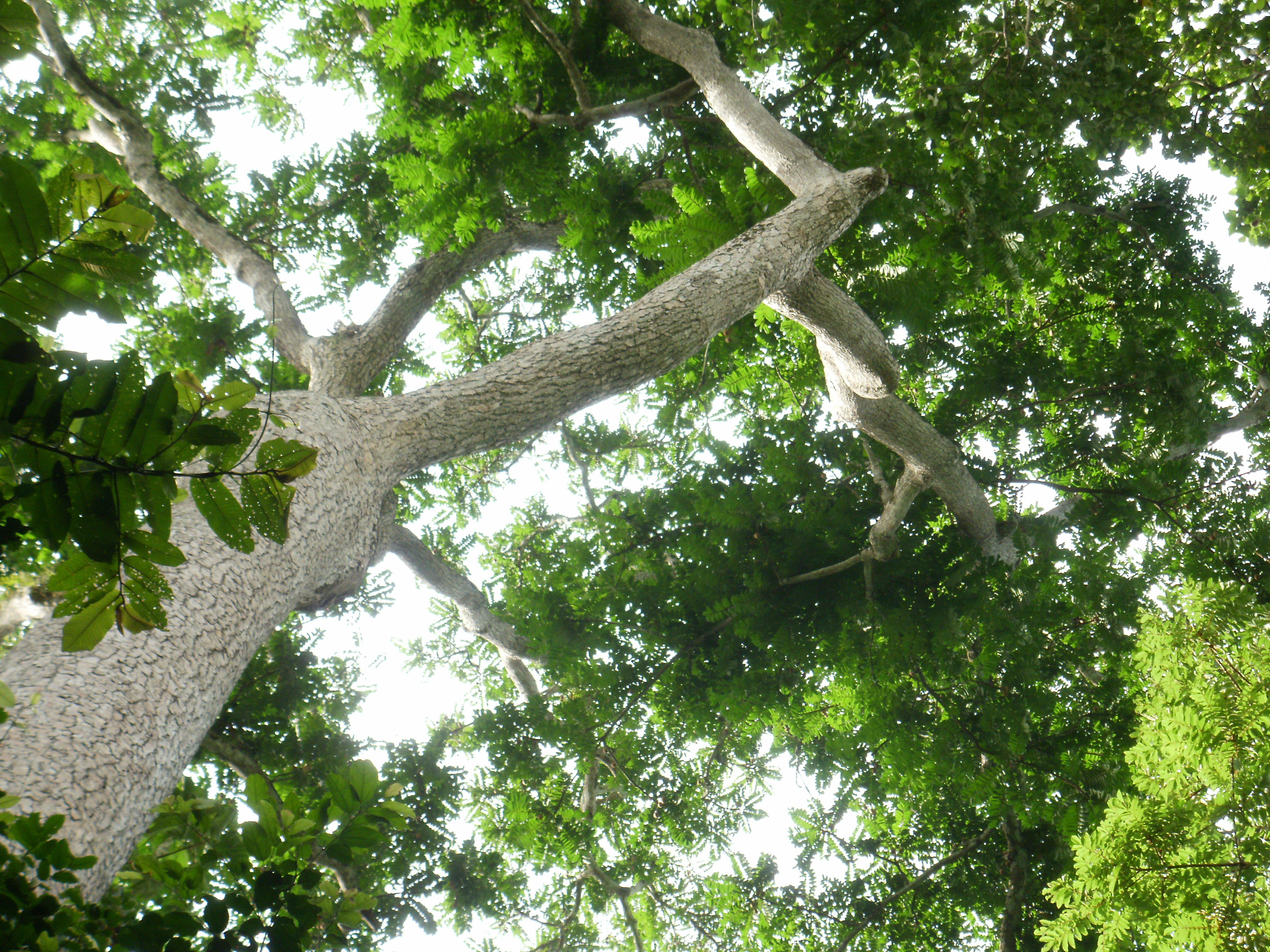 Umbrella trees in protected Bia Forest in Western Region